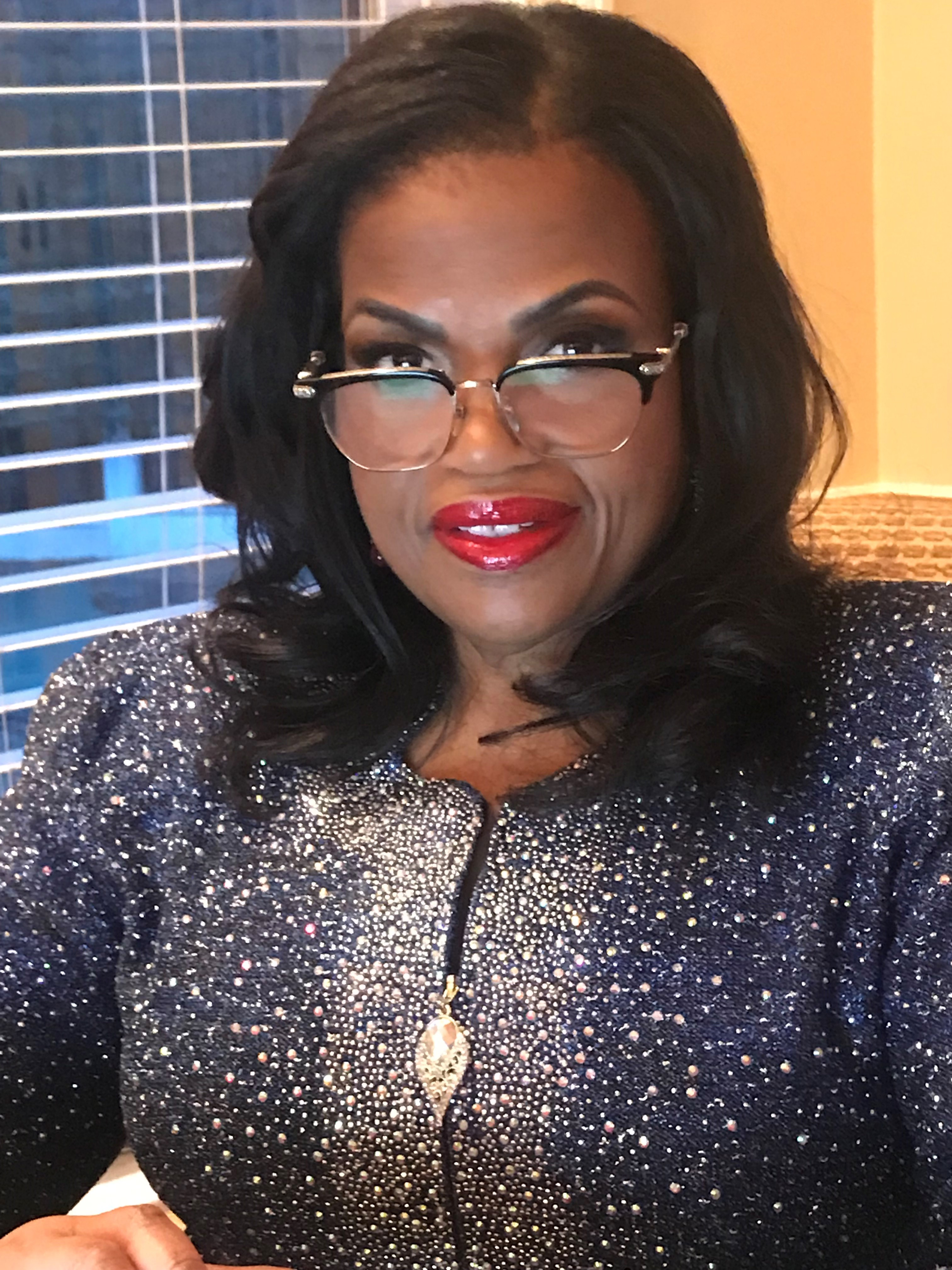 Rosa Whitaker in her office